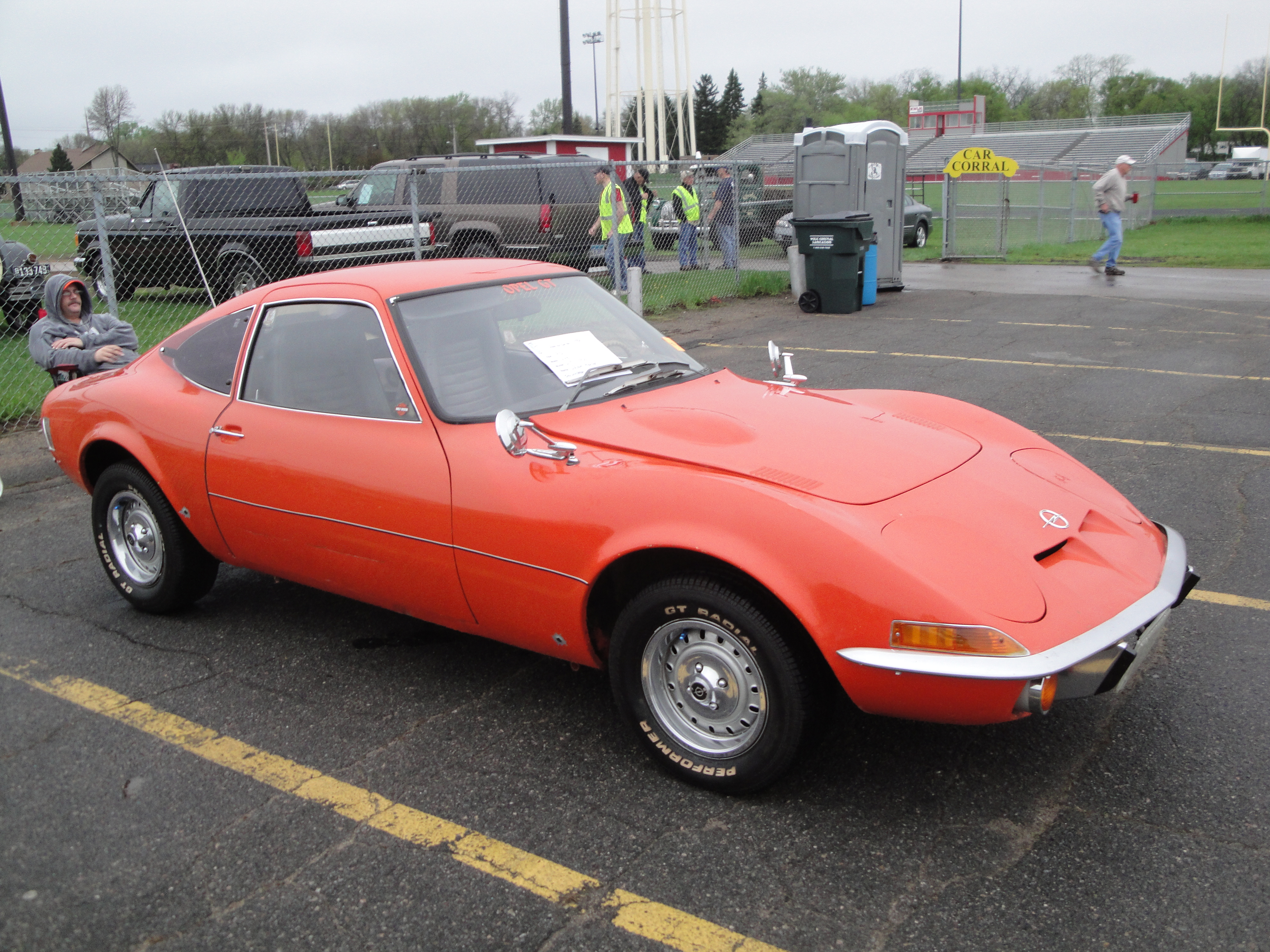 The weather and gas prices did not help the attract large numbers cars to the show, but the afternoon turned out nice. Spectators did not get to see as many cars, but there still was a great variety of very nice cars. Thousands of car pictures at the link below